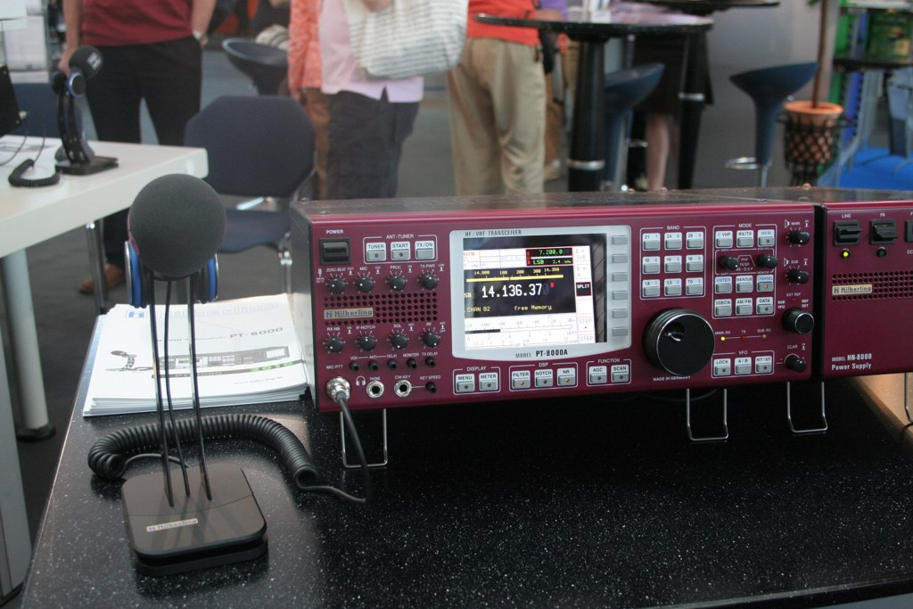 When this radio will be on my shack... I'll be too old to climb mountains and too blind to see this colour!